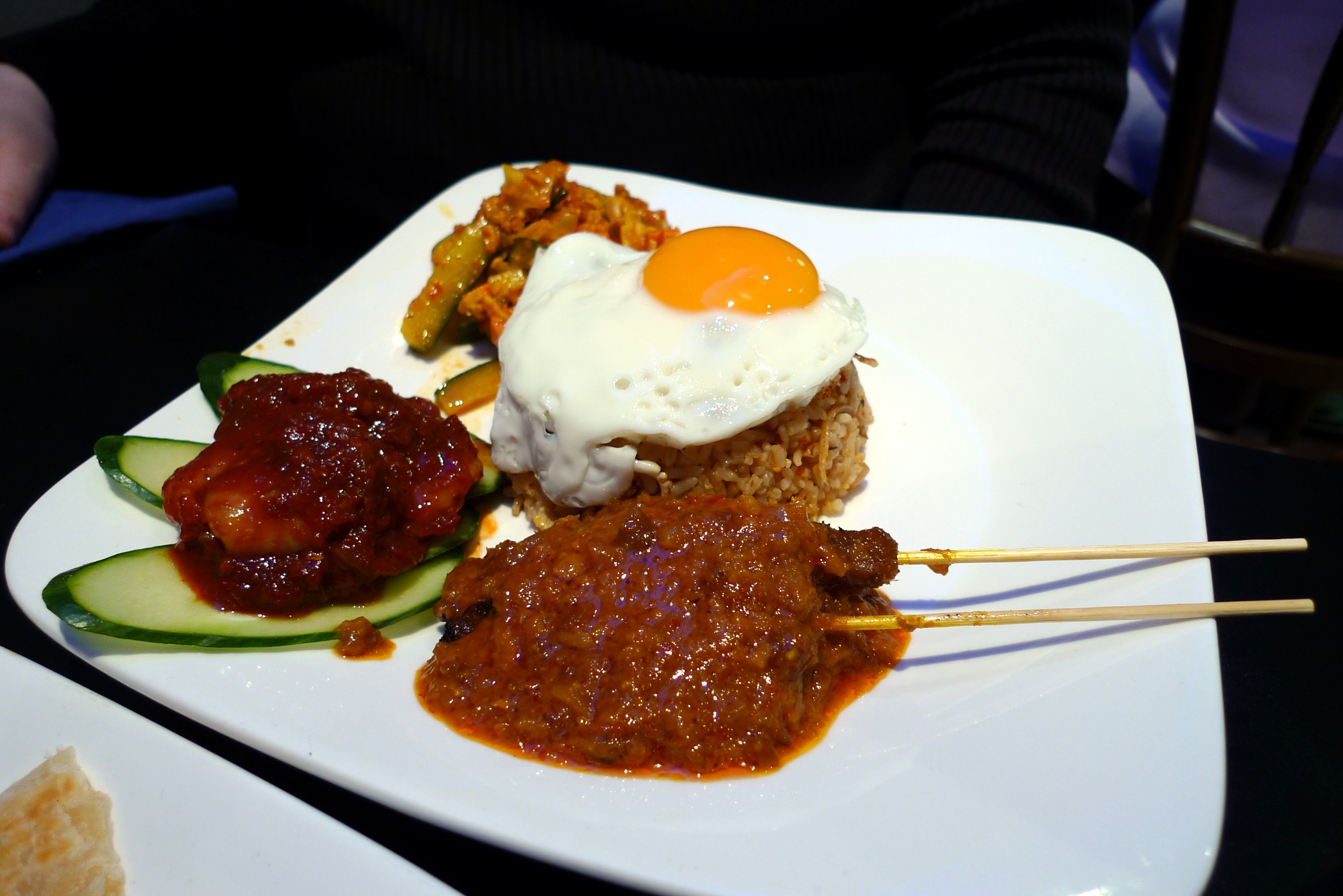 This is the nasi goreng Istimewa, I believe, if I'm reading the menu correctly. At Kiasu, Queensway.